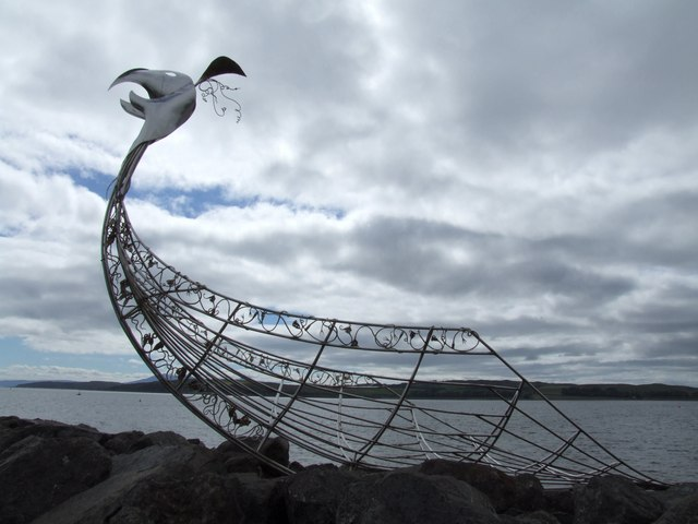 Viking Ship Sculpture, Largs This sculpture was inspired by the lines of a clinker built Viking longboat. The head and detailing pays homage to Nordic mythology and symbolism. It marks the site of the last Viking invasion of Scotland which took place in 1263. The subsequent Battle of Largs was a bloody one, with few survivors. This sculpture was commissioned in 1996 by the local marina and it is fixed to the breakwater of large rocks. Made of stainless steel, it was positioned so that waves can wash against it in rough weather. The sculptor was Giusseppe Lund - Sculptor & Architectural Metalsmith. Largs has a great pride in its Viking connections. There are festivals every summer and the Vikingar Centre has a dramatic presentation of the Gods and people.